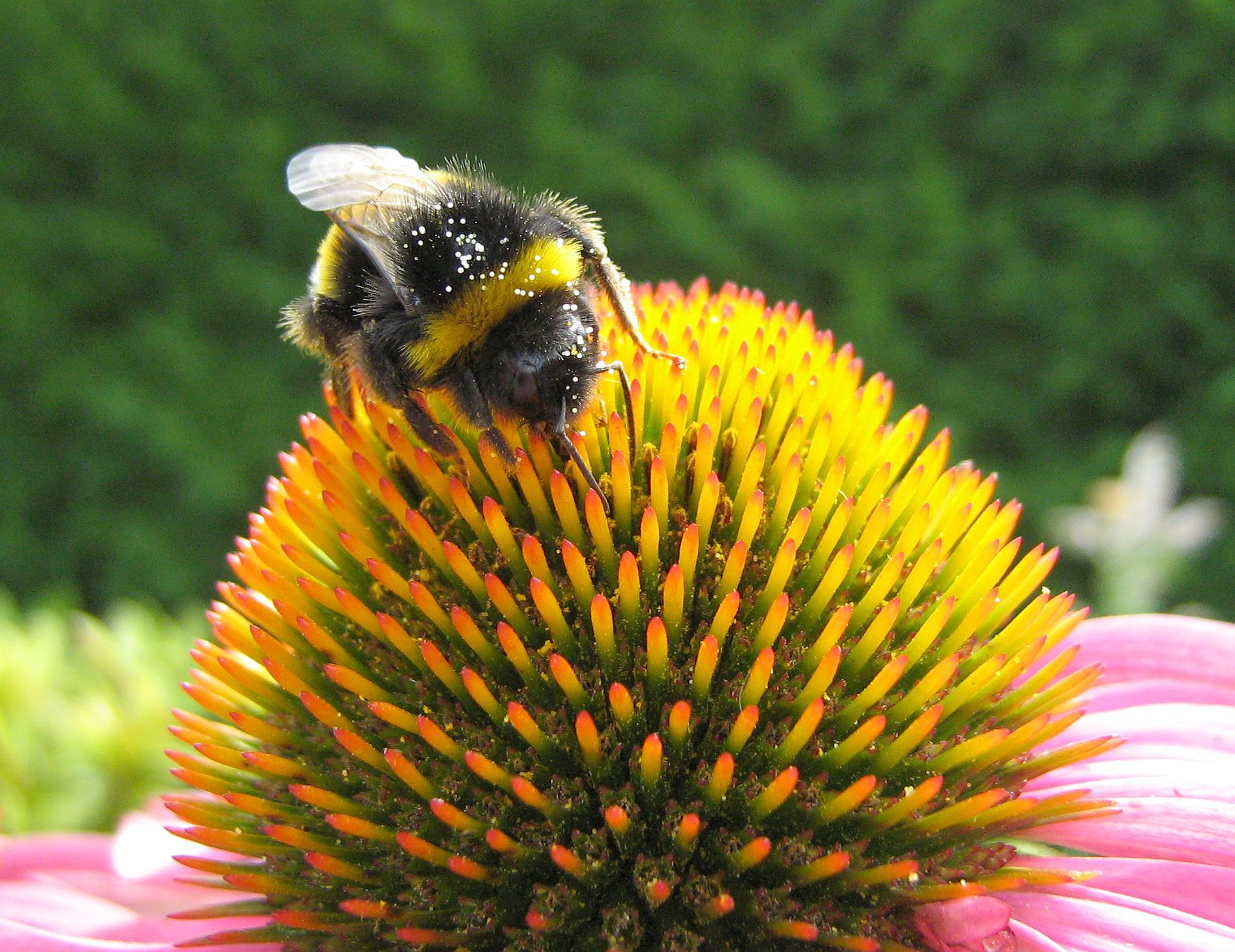 A bumblebee on a Echinacea purpurea with pollen. The white and yellow dots are pollen.